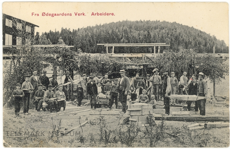 "Sollegjengen" near Ødegårdens Verk in Bamble. Supervisor Erland Eide with staw hat center of frame.